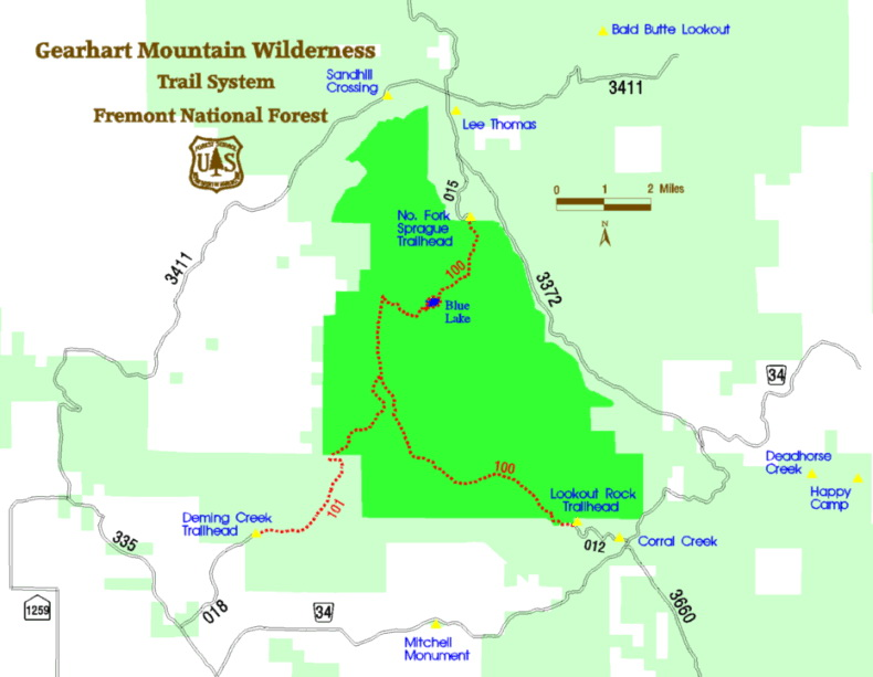 A map of the Gearhart Mountain Wilderness in southern Oregon